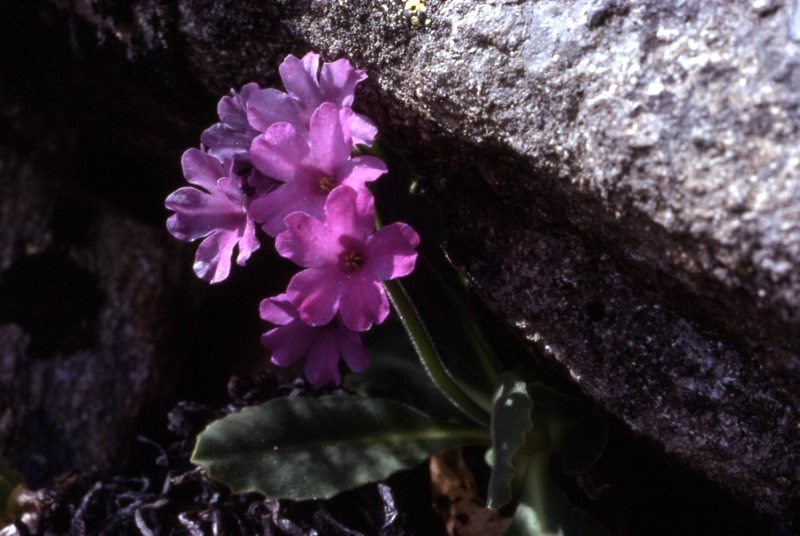 Primula latifolia - Flower